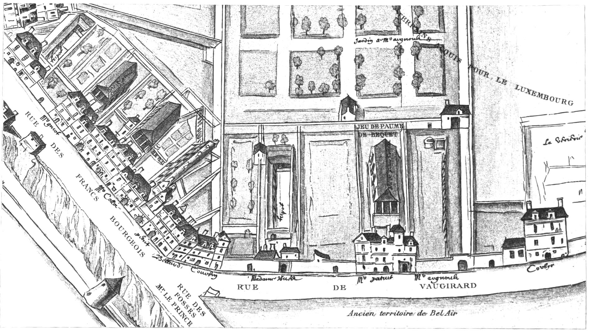 Jeux de paume ("tennis courts") in what is now the Luxembourg area of Paris, in particular showing the Jeu de Paume de Bécquet (also called Jeu de Paume de Bel-Air), which was the home of the Paris Opera from November 1672 until June 1673. The figure shows a 1615 enlargement of a section the 1609 Quesnel map of Paris (see File:Plan de Paris en 1609.jpg).